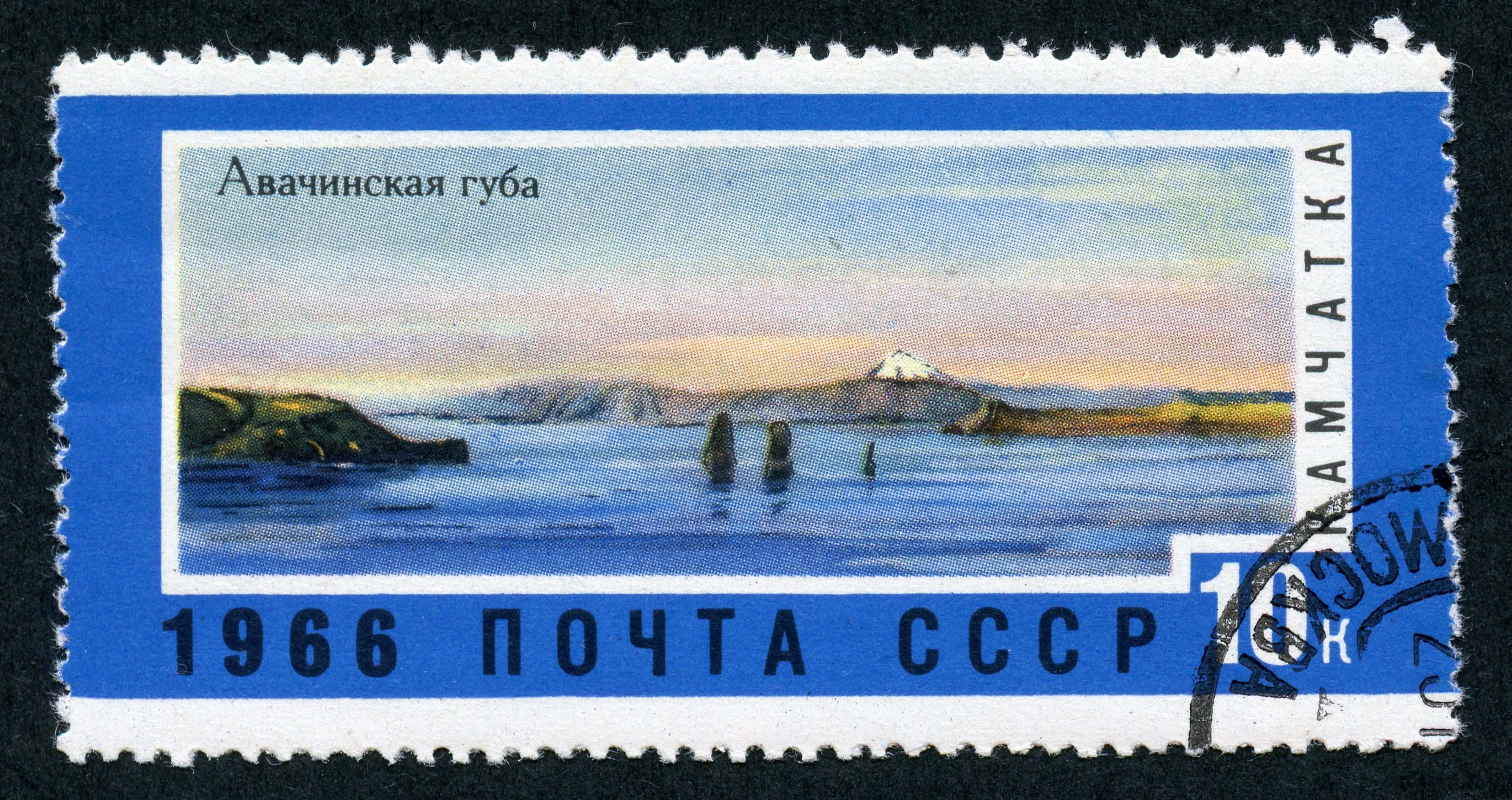 Same as 1966 CPA 3450.jpg, but with a postmark